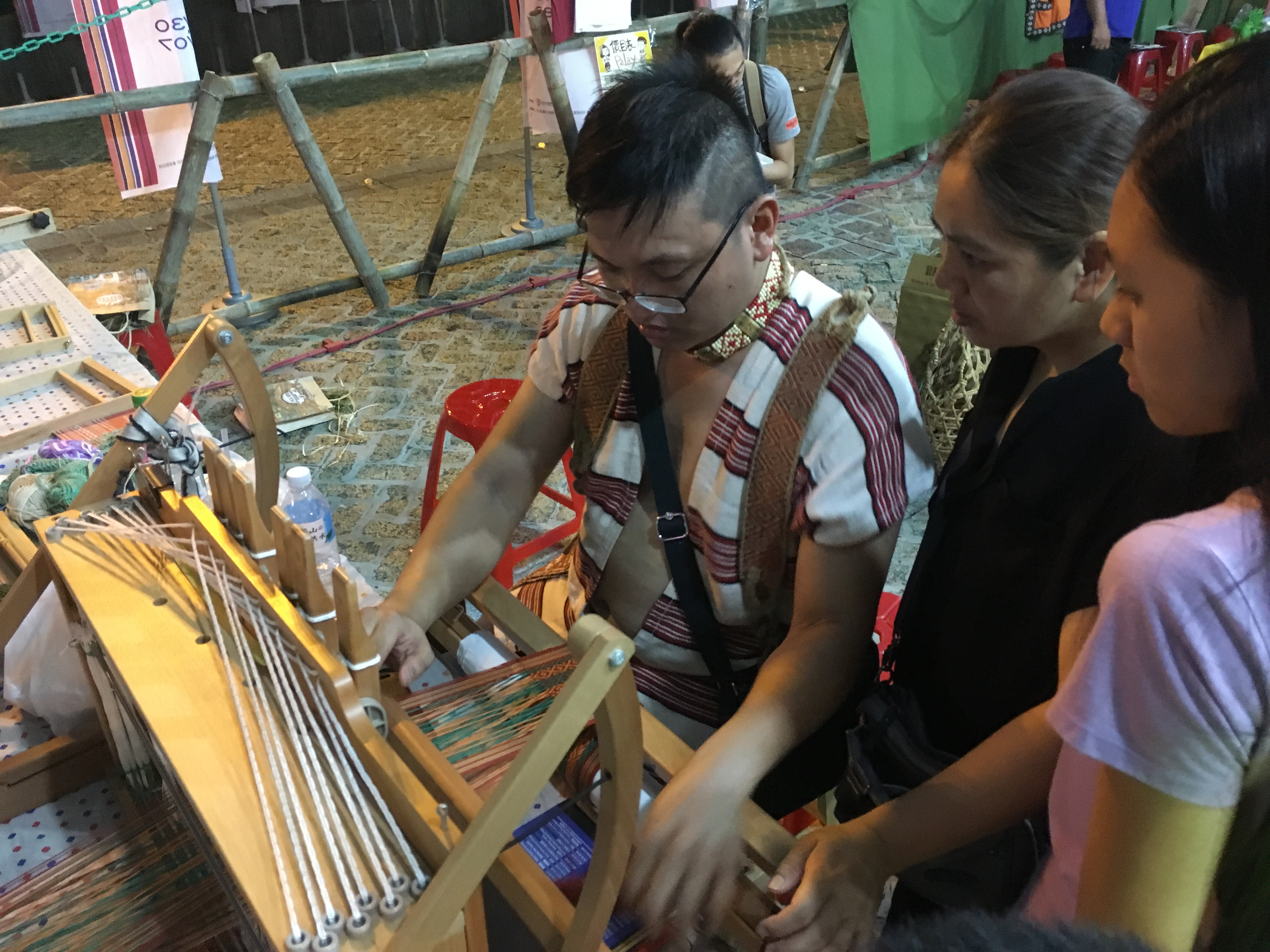 A weaving indigenous Kaxabu man.